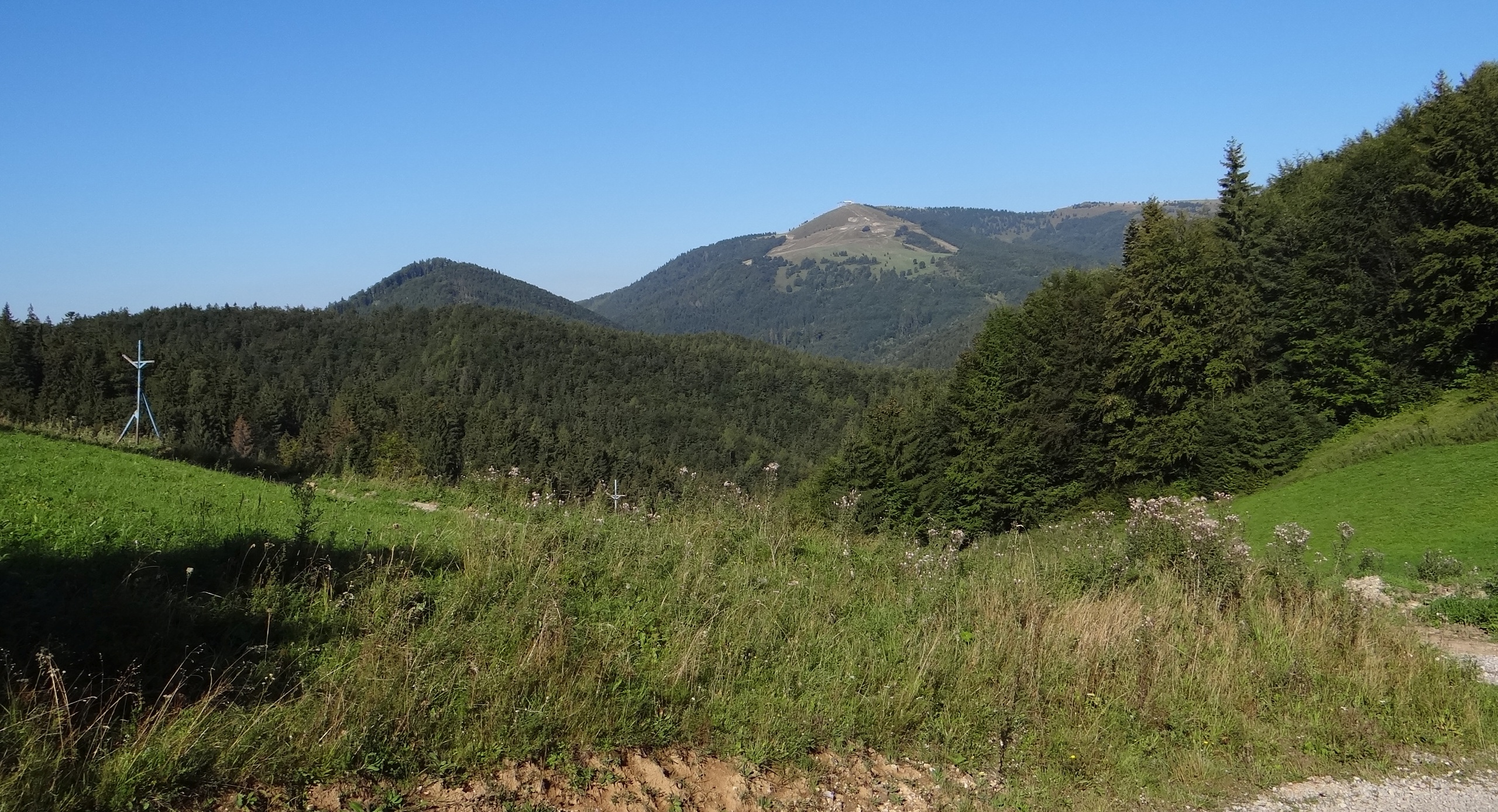 View from sedlo pod Babou